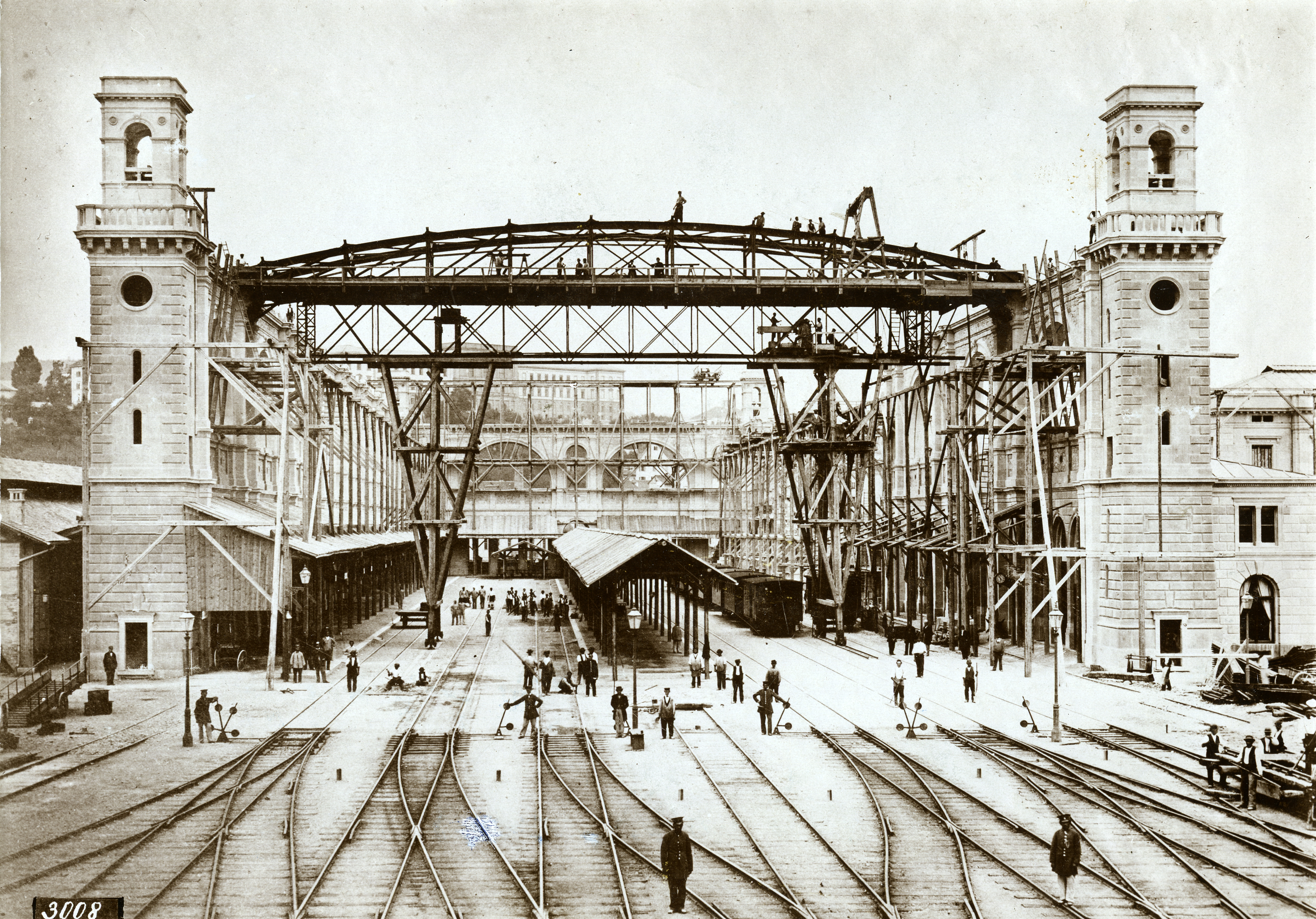 Building of Zürich Main Station in 1870